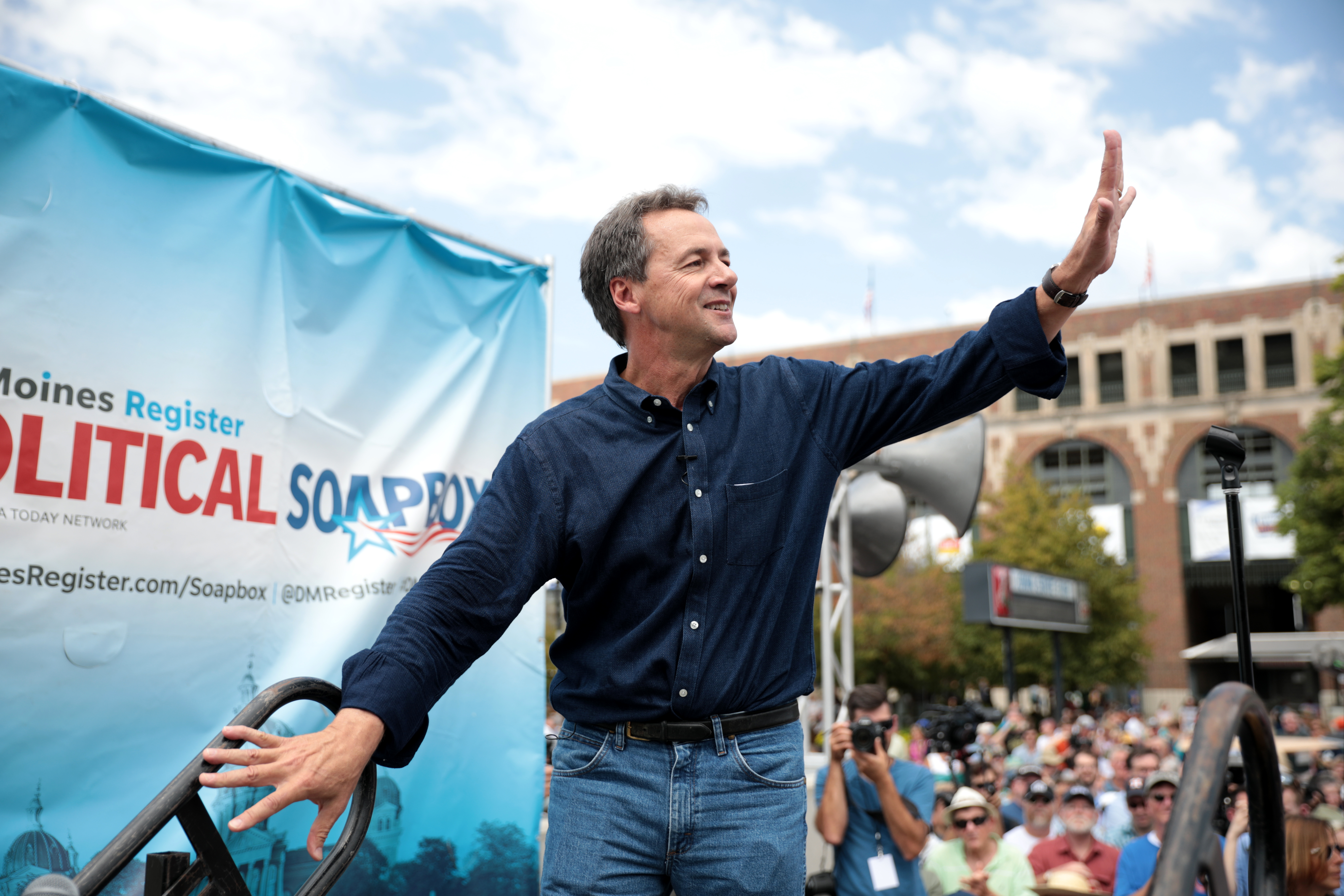 Governor Steve Bullock speaking with supporters at the Des Moines Register's Political Soapbox at the 2019 Iowa State Fair in Des Moines, Iowa.